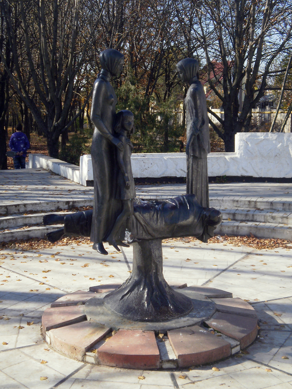 е